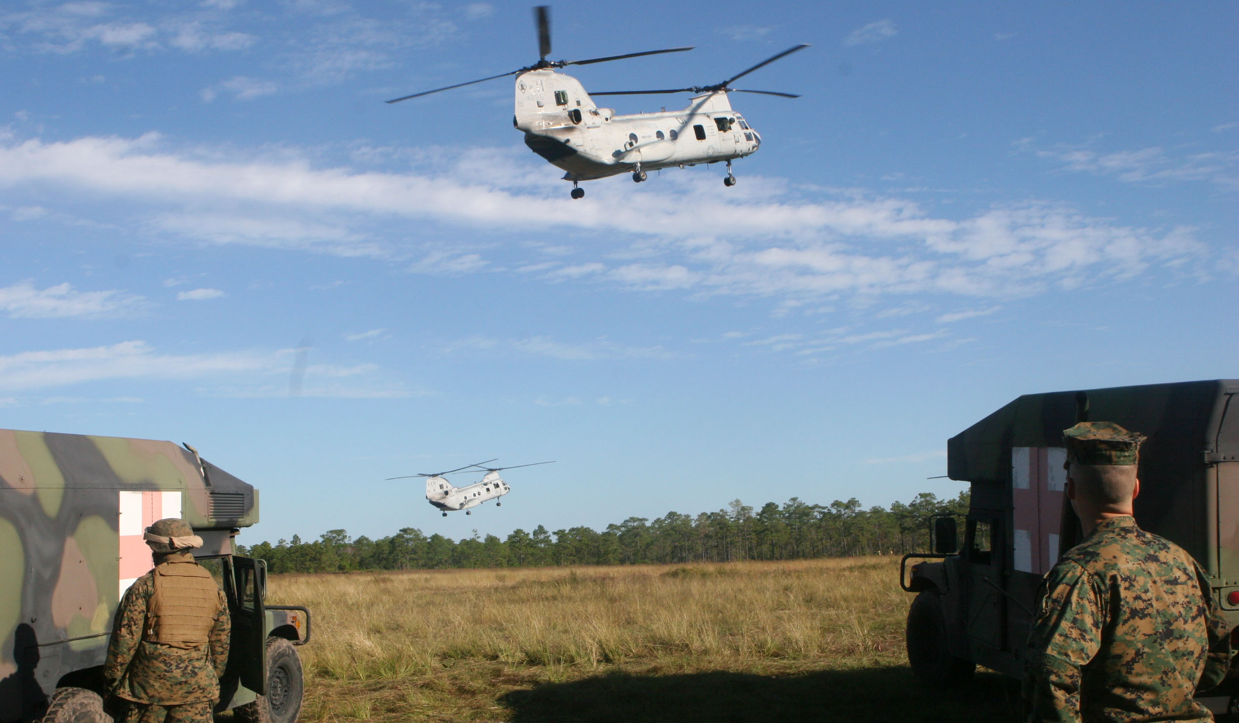 Two CH-46 "Sea Knights" soar away as they transport Marines injured in a simulated improvised explosive device attack during a level one and level two casualty evacuation exercise performed by en:2nd Medical Battalion, en:2nd Marine Logistics Group, here, Oct. 31. The battalion conducted the exercise to show its life-saving capabilities to the medical officer of the Marine Corps. Photo by: Cpl. Aaron Rooks Photo ID: 20071129460 Submitting Unit: 2nd Marine Logistics Group Photo Date:31/10/2007